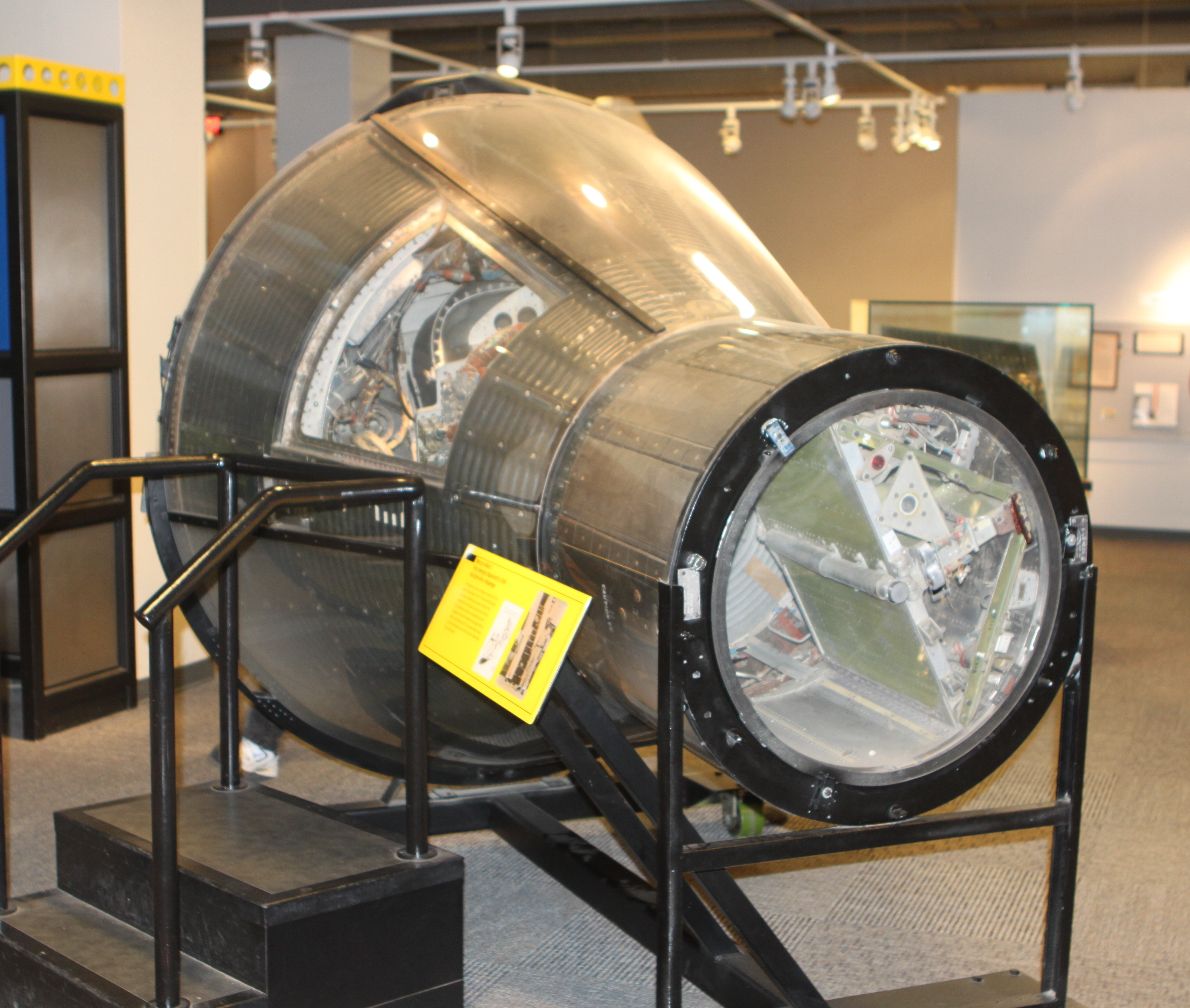 Mercury-Atlas 5 capsule held Enos, a chimpanzee, as he orbited the earth twice on November 29, 1961. This flight was the final test before John Glen's first U.S. orbiting human. Here the capsule is on display at the North Carolina Museum of Life and Science.